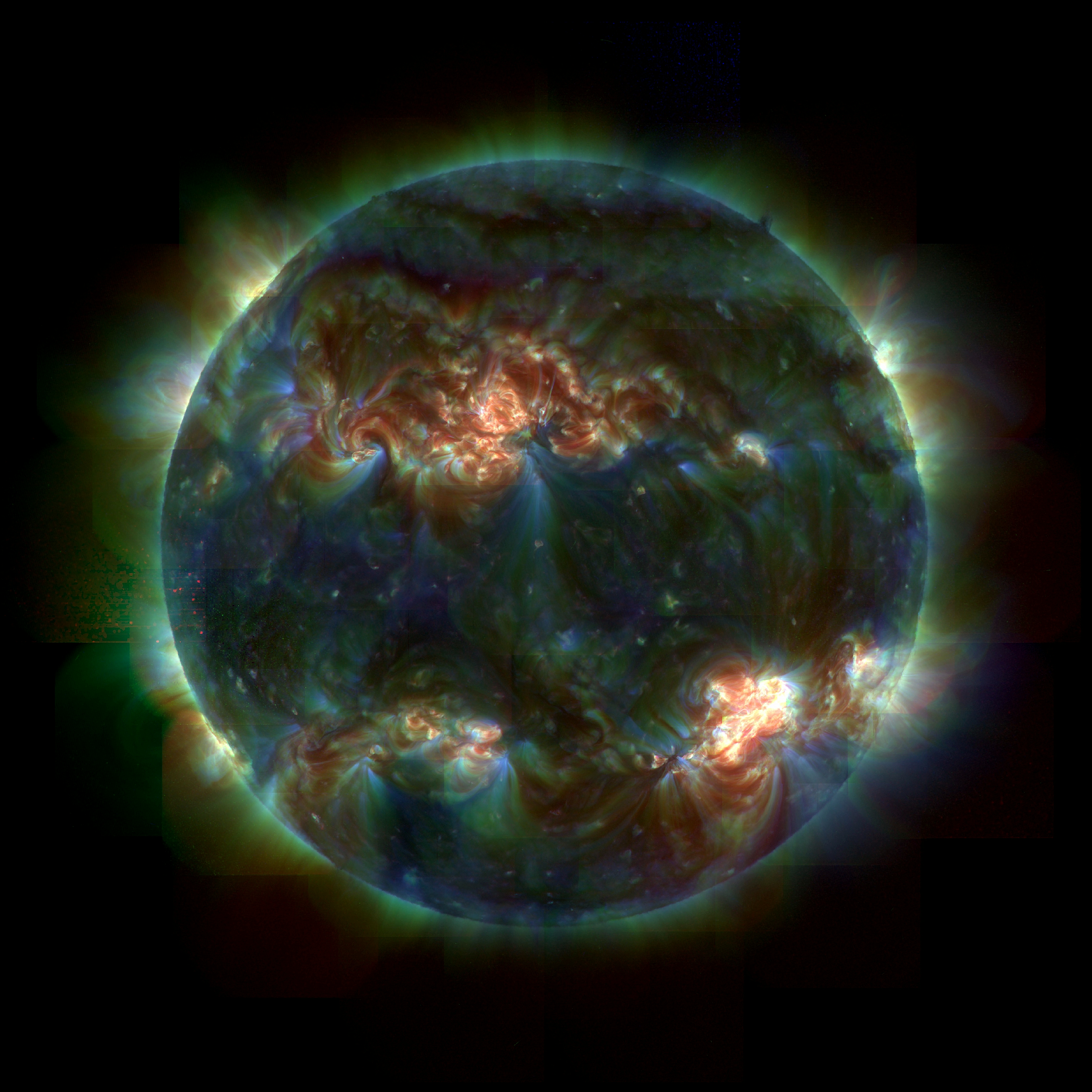 This is a false-color, 3-layer composite from the TRACE observatory showing the solar corona: the blue, green, and red channels show the 171Å, 195Å, and 284Å, respectively. These TRACE filters are most sensitive to emission from 1, 1.5, and 2 million degree plasma, thus showing the entire corona and detail of coronal loops in the lower solar atmosphere). The image shows the corona for a moderately active Sun, with some (red) hot active regions in both hemispheres, surrounded by the (blue/green) cooler plasma of the quiet-Sun corona. Notice the multitude of relatively cool loops connecting the active regions on both hemispheres.